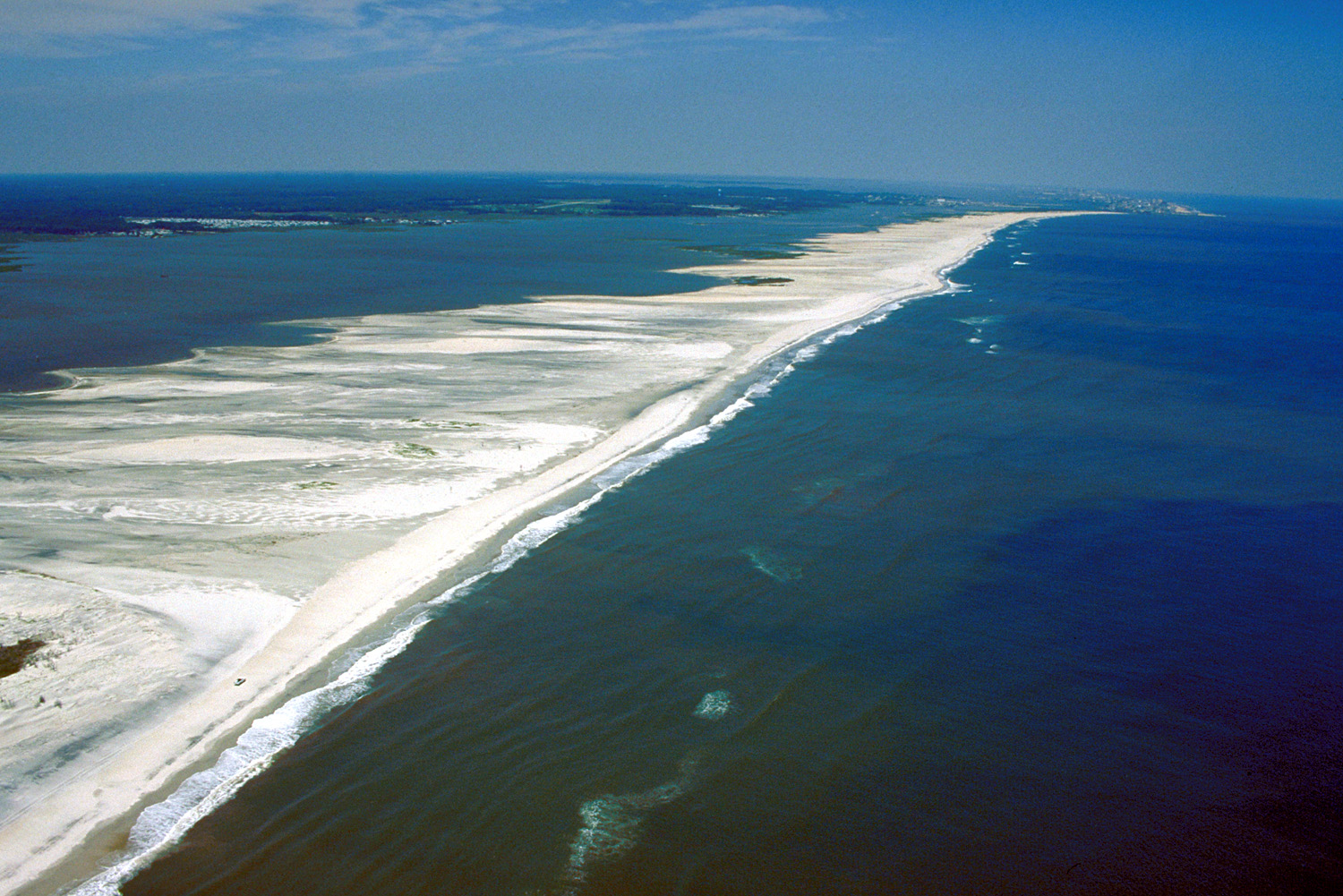 Aerial view of Assateague Island on the Atlantic Ocean in Maryland, USA. The photograph shows the erosion to the beaches due to Atlantic storms. In the far distance at the top right is Ocean City, Maryland.